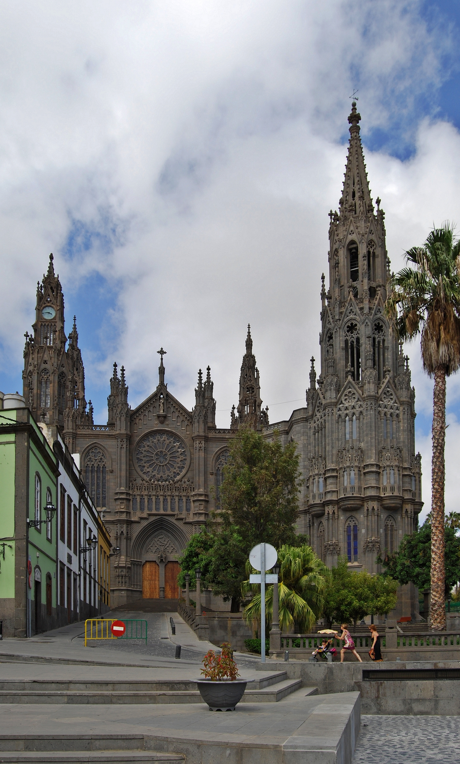 The Iglesia de San Juan Bautista (Church of John the Baptist) in Arucas, Gran Canaria.